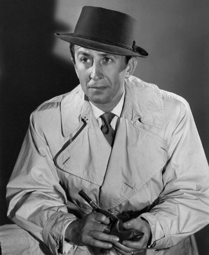 Photo of George Petrie from the radio program Charlie Wild, Private Detective. The program also aired on television, but not with Petrie as the star.